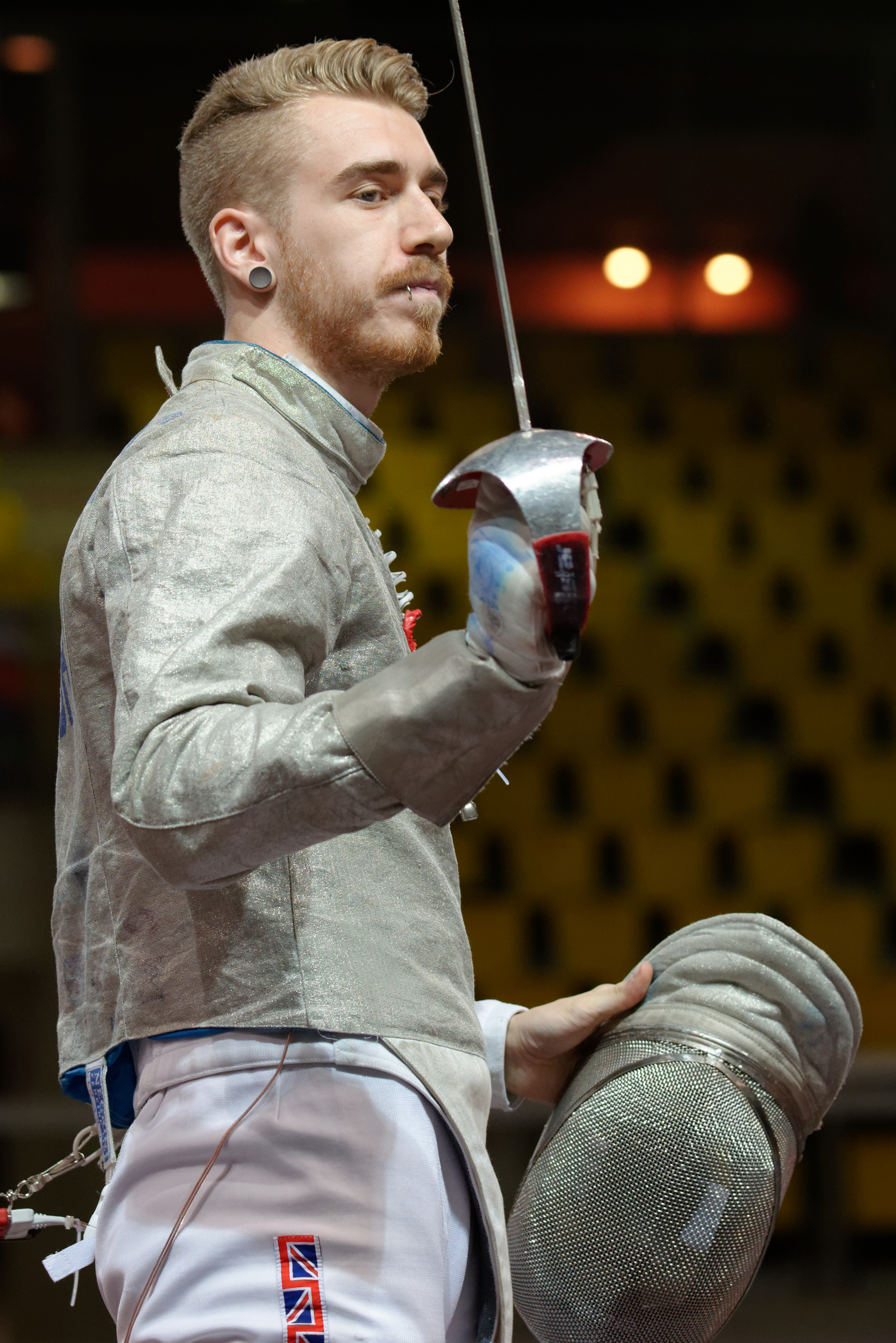 James Honeybone of Great Britain during the men's team sabre event at the European Fencing Championships at Rhénus Sport in Strasbourg on 14 June 2014.